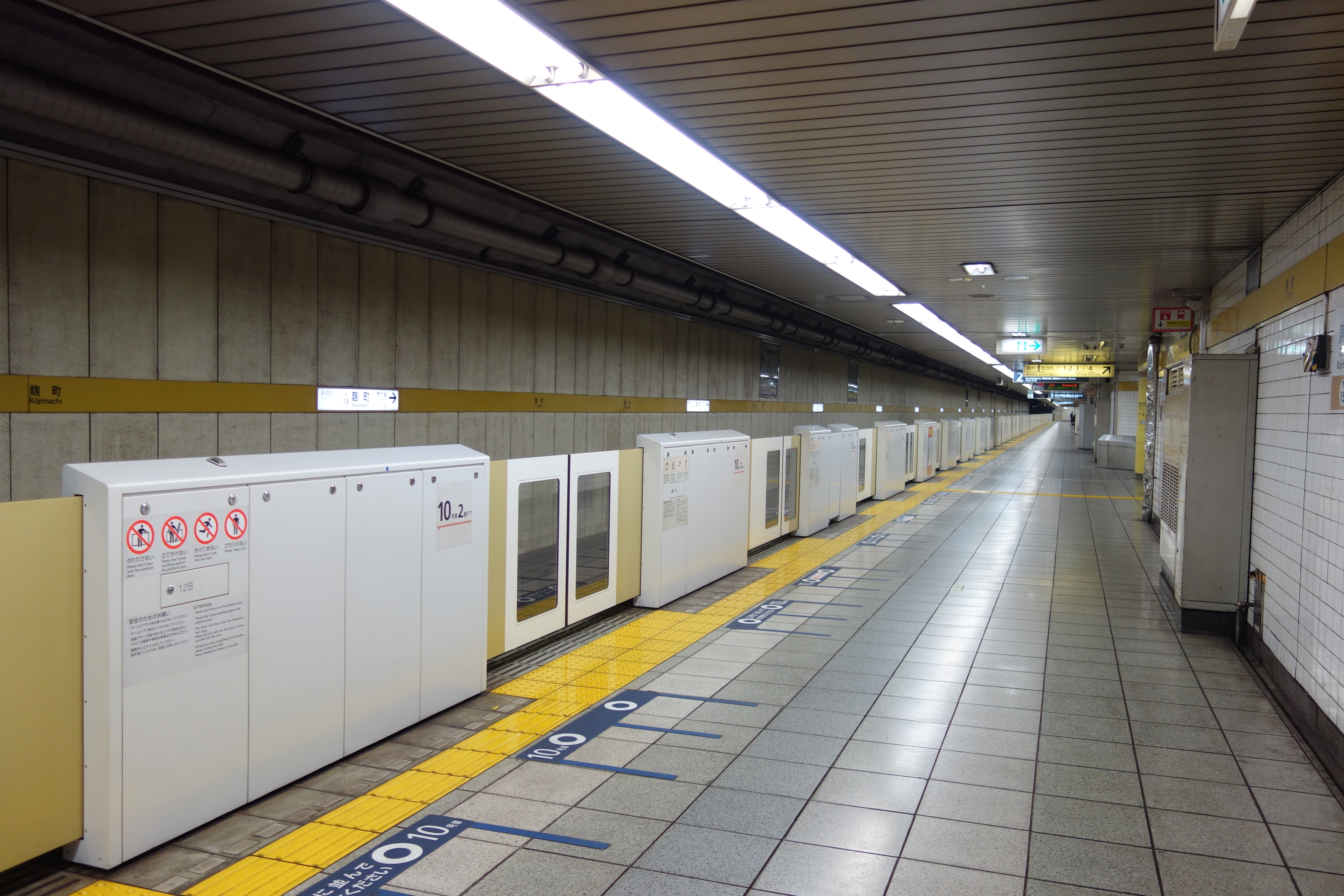 Track No.2 of Kōjimachi station in Tokyo